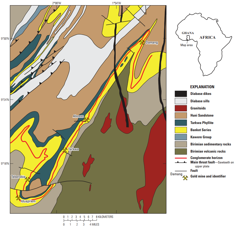 USGS geologic map Ghana